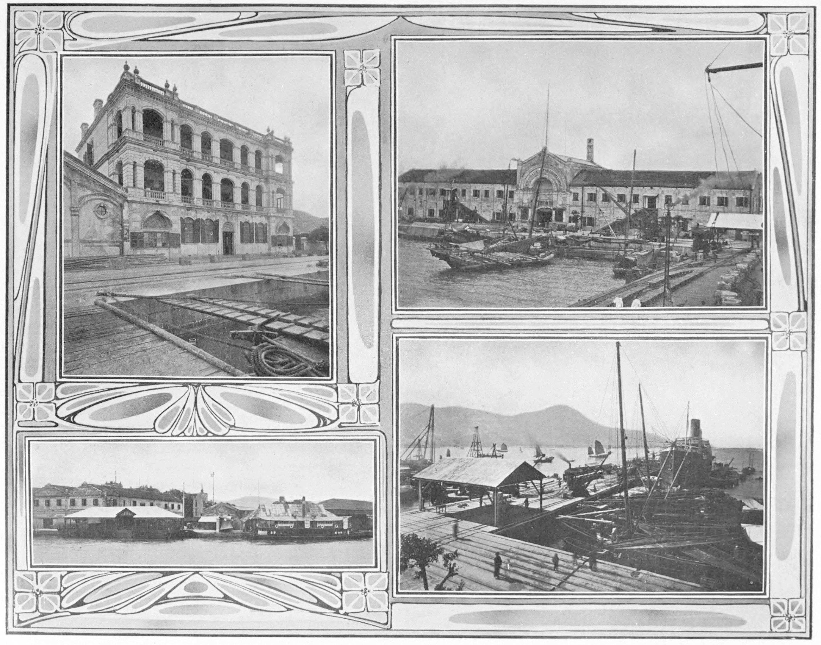 hong kong and kowloon wharf and godown co